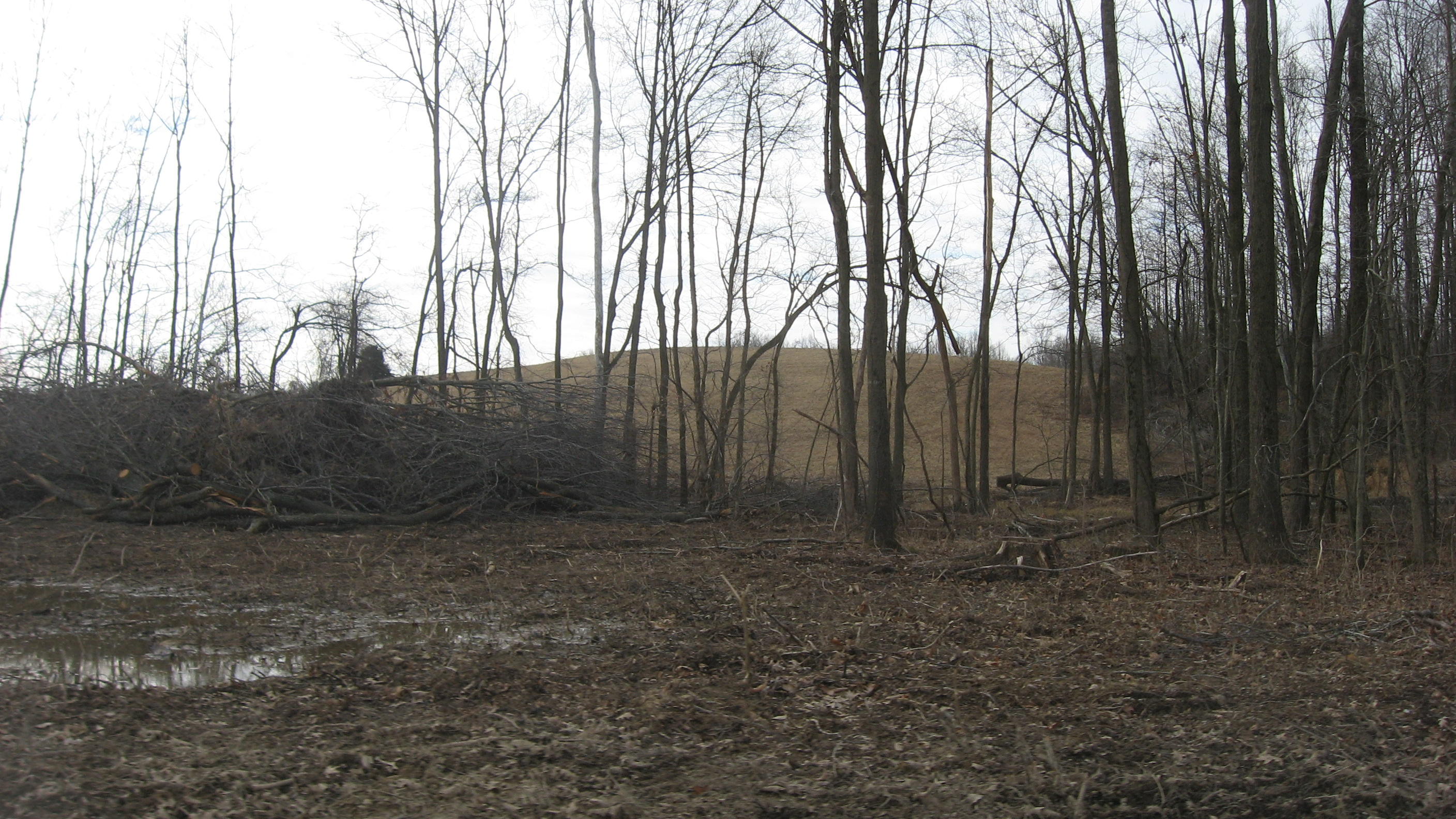 Overview of the Annis Village Site, located off the southern side of Annis Ferry Road in the Big Bend of northern Butler County, Kentucky, United States. The village is a significant archaeological site and has been listed on the National Register of Historic Places.